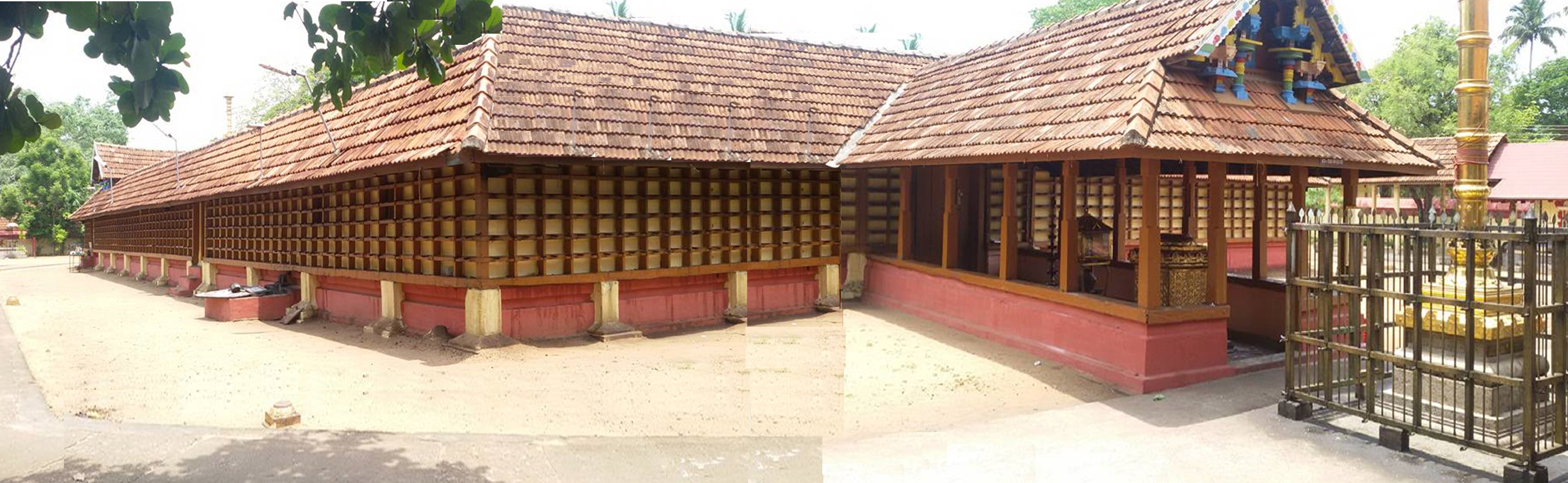 Anandavalleeshwaram Sri Mahadevar Temple